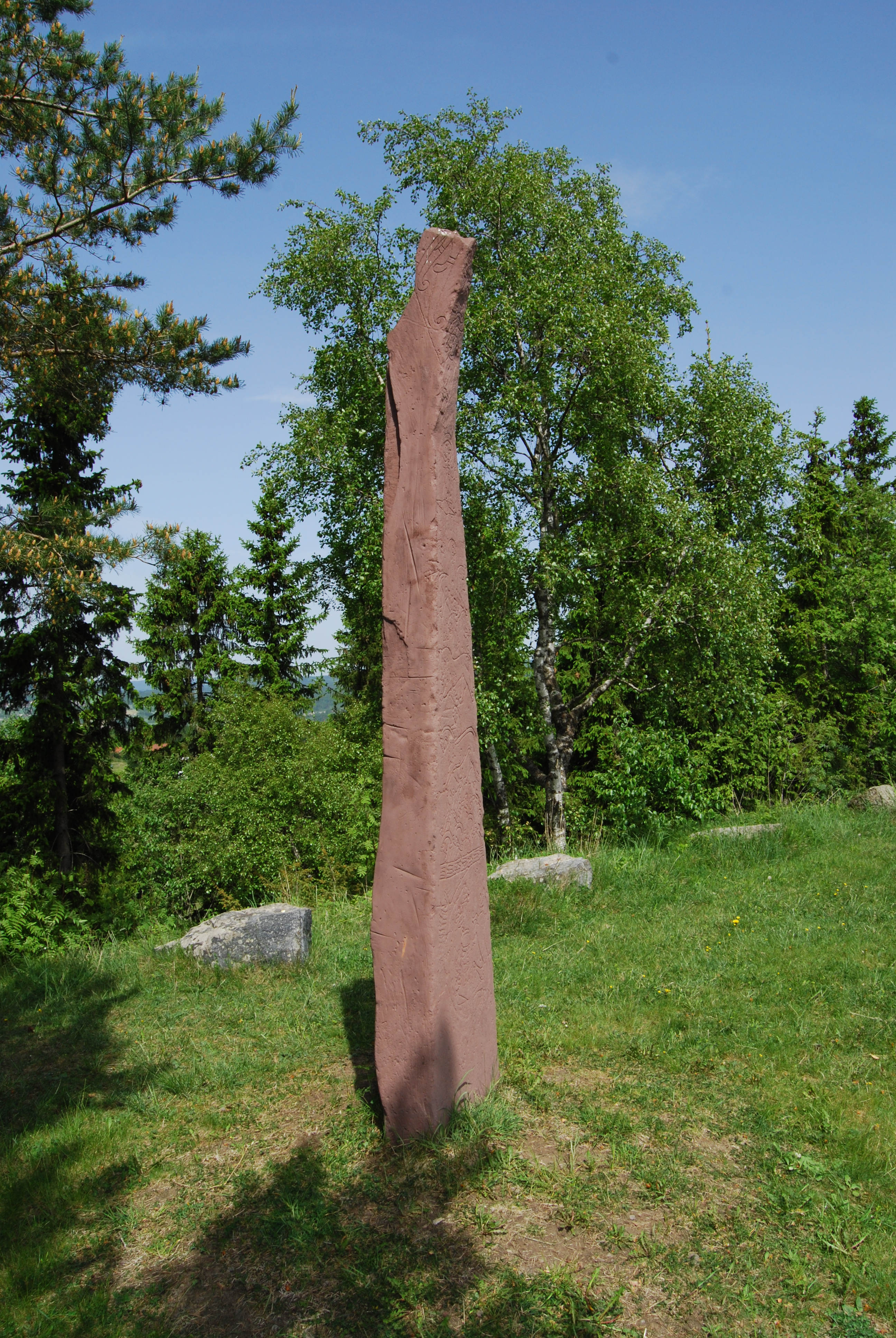 The copy of the Dynna stone runestone at Hadeland Folkemuseum in Gran, Norway. Front and left side.